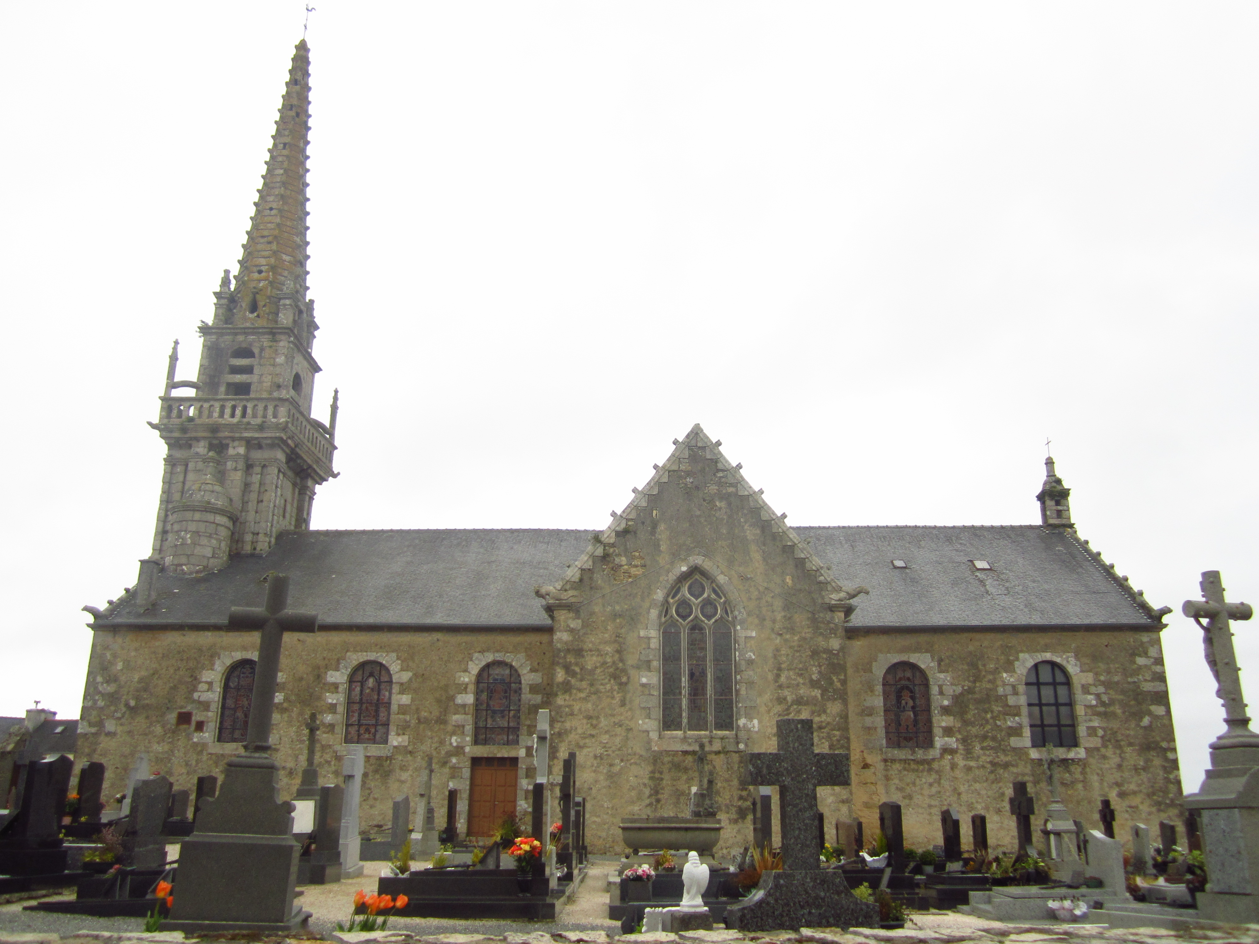 Church of Plougar, Finistère